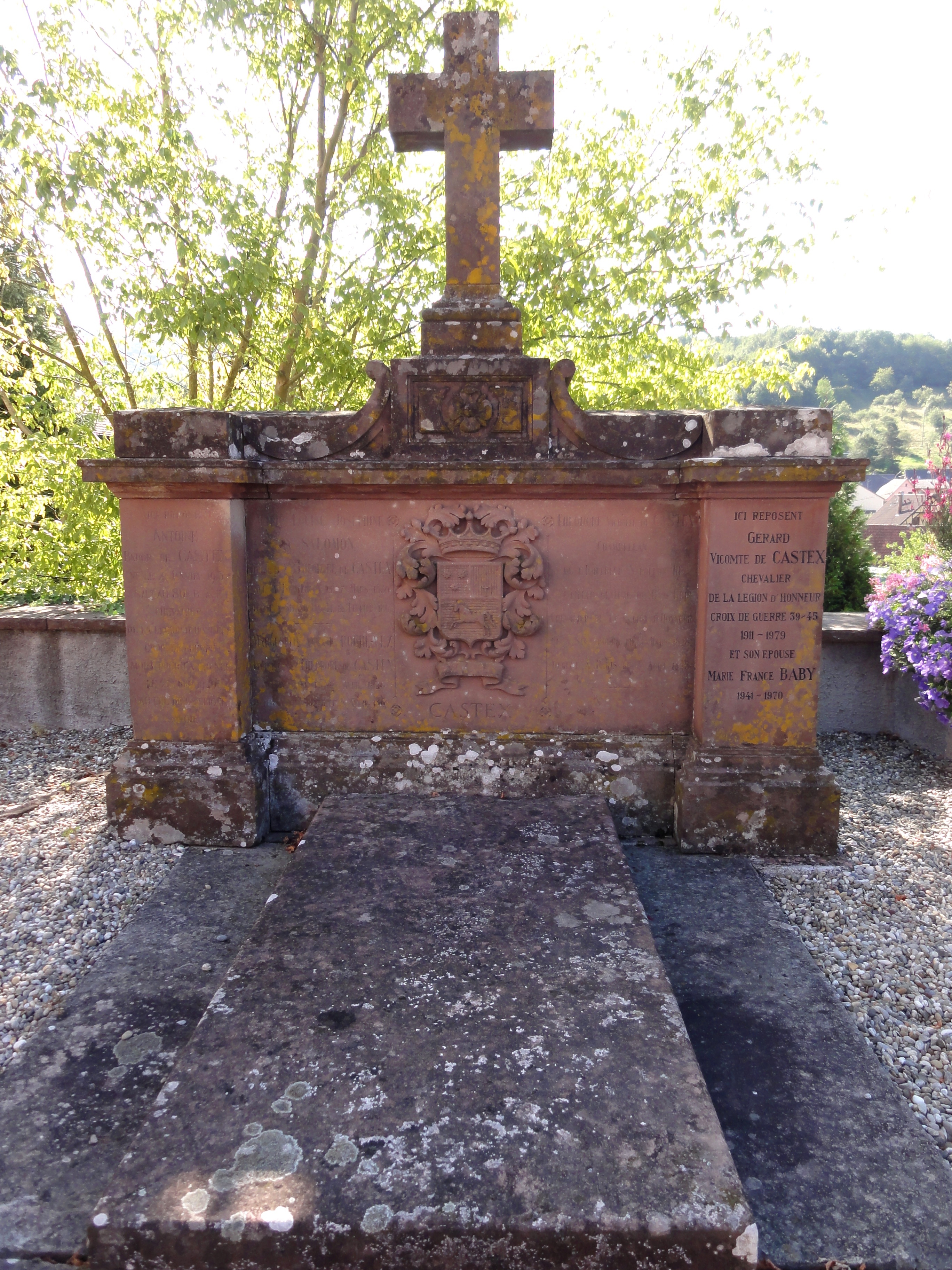 Alsace, Bas-Rhin, Thanvillé, Église Saint-Jacques-le-Majeur, Monument funéraire de la famille de Castex (XIXe): This object is indexed in the base Palissy, database of the French furniture patrimony of the French ministry of culture, under the references IM67014799 and IM67013550.